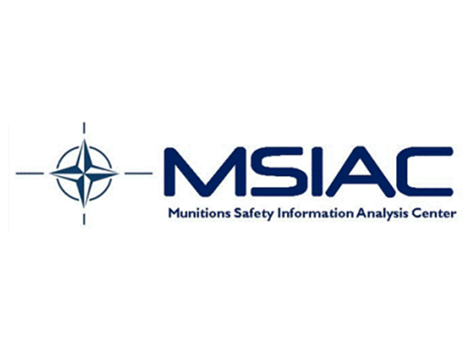 MSIAC logo